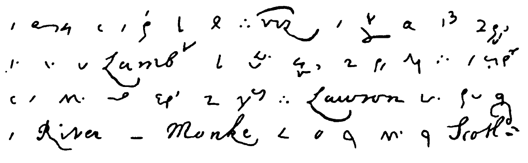 A copy of the second paragraph of Samuel Pepys's diary, engraved for the first edition of the Rev. John Smith's 1825 edition of the diary. (Image is found at volume 1, page 1). Text reads: "The condition of the State was thus. Viz. the Rump, after being disturbed by my Lord Lambert, was lately returned to sit again. The officers of the army all forced to yield. Lawson lie[s] still in the River and Monke is with his army in Scotland."